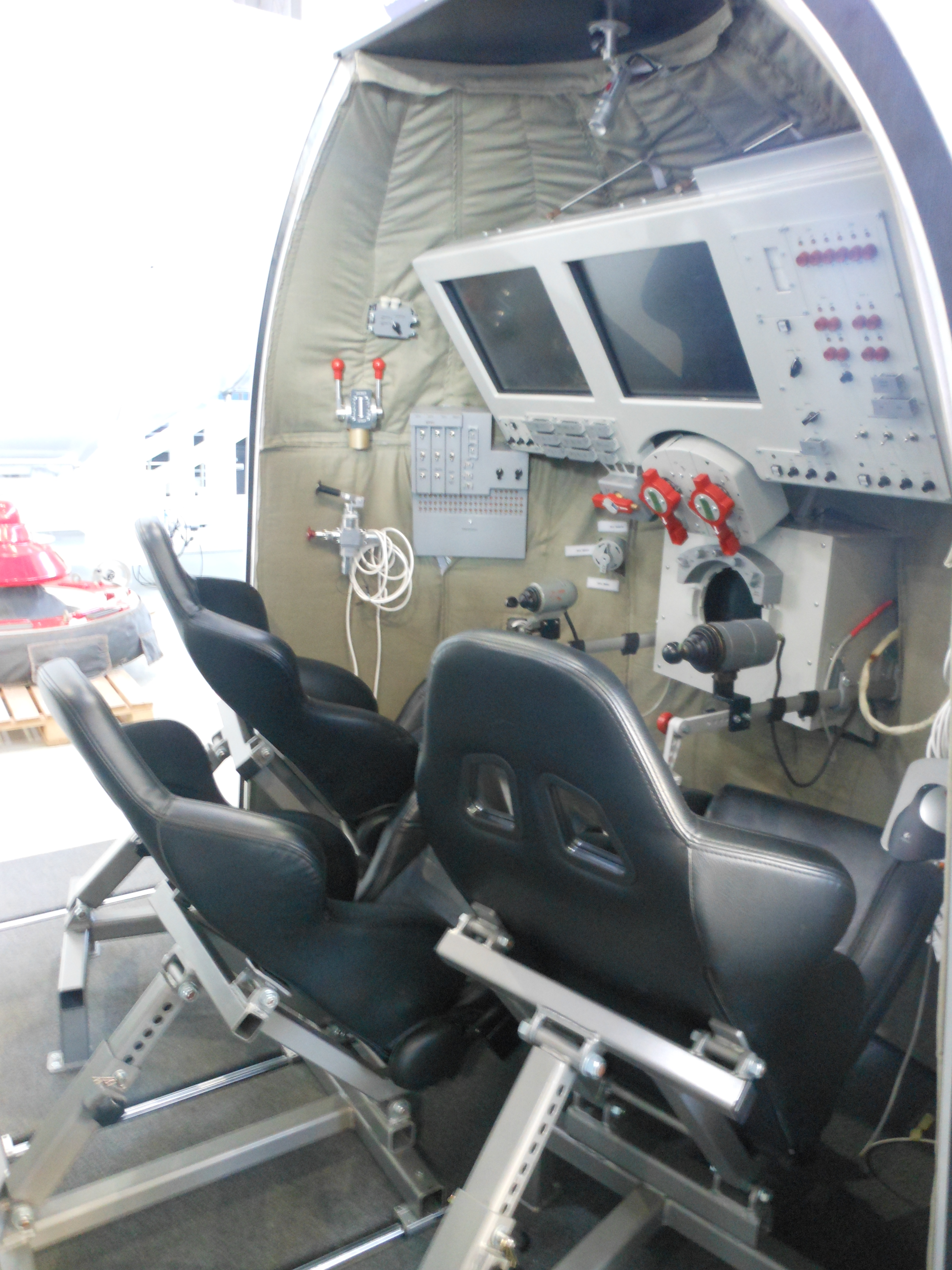 Picture of a soyuz training capsule at the EAC in cologne, Germany